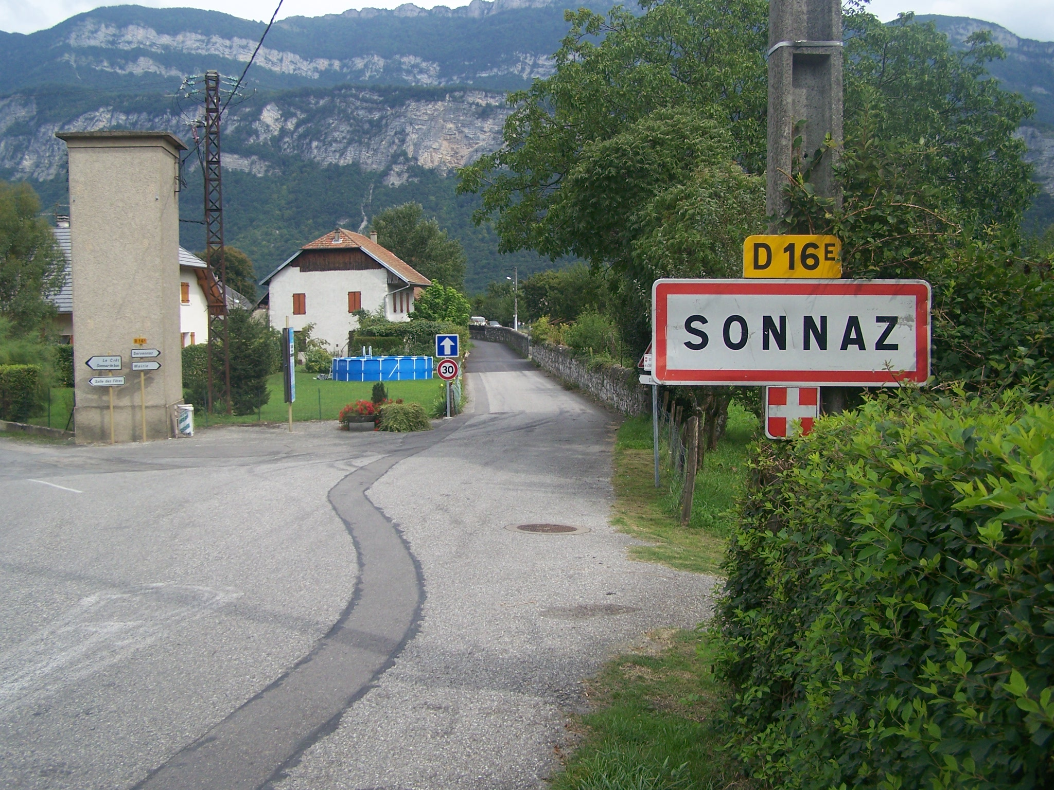 Sign welcoming visitors to the village of Sonnaz near Chambéry, in Savoie, France.